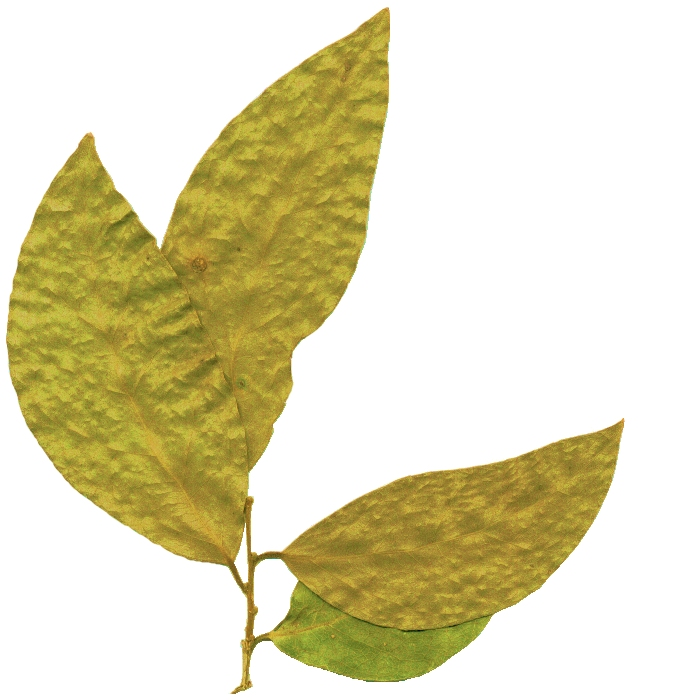 Sword-leaf, material collected north of Beira, Mozambique